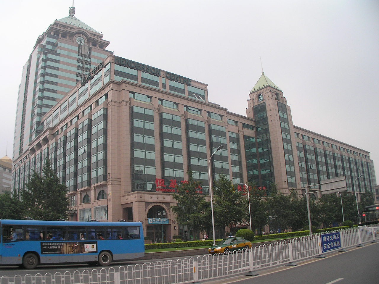 The Henderson Centre Beijing.